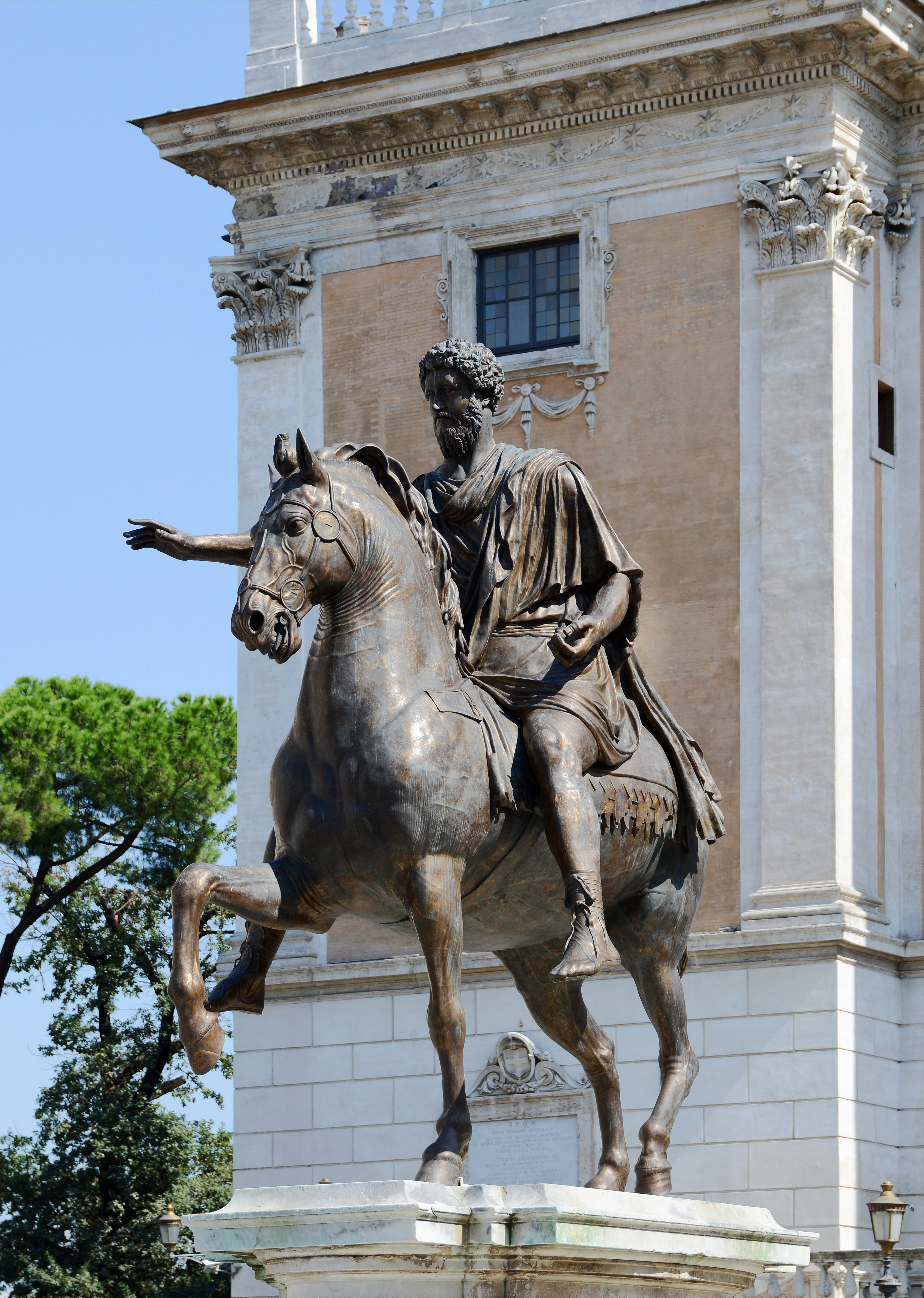 Replica of the equestrian statue of Marcus Aurelius in the Capitoline Hill, Rome